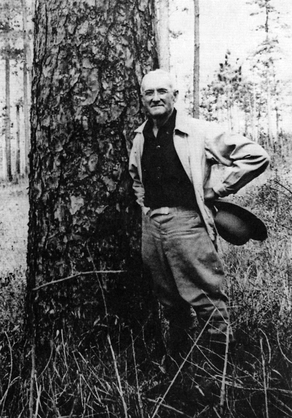 Stoddard stands in front of an old-growth longleaf pine